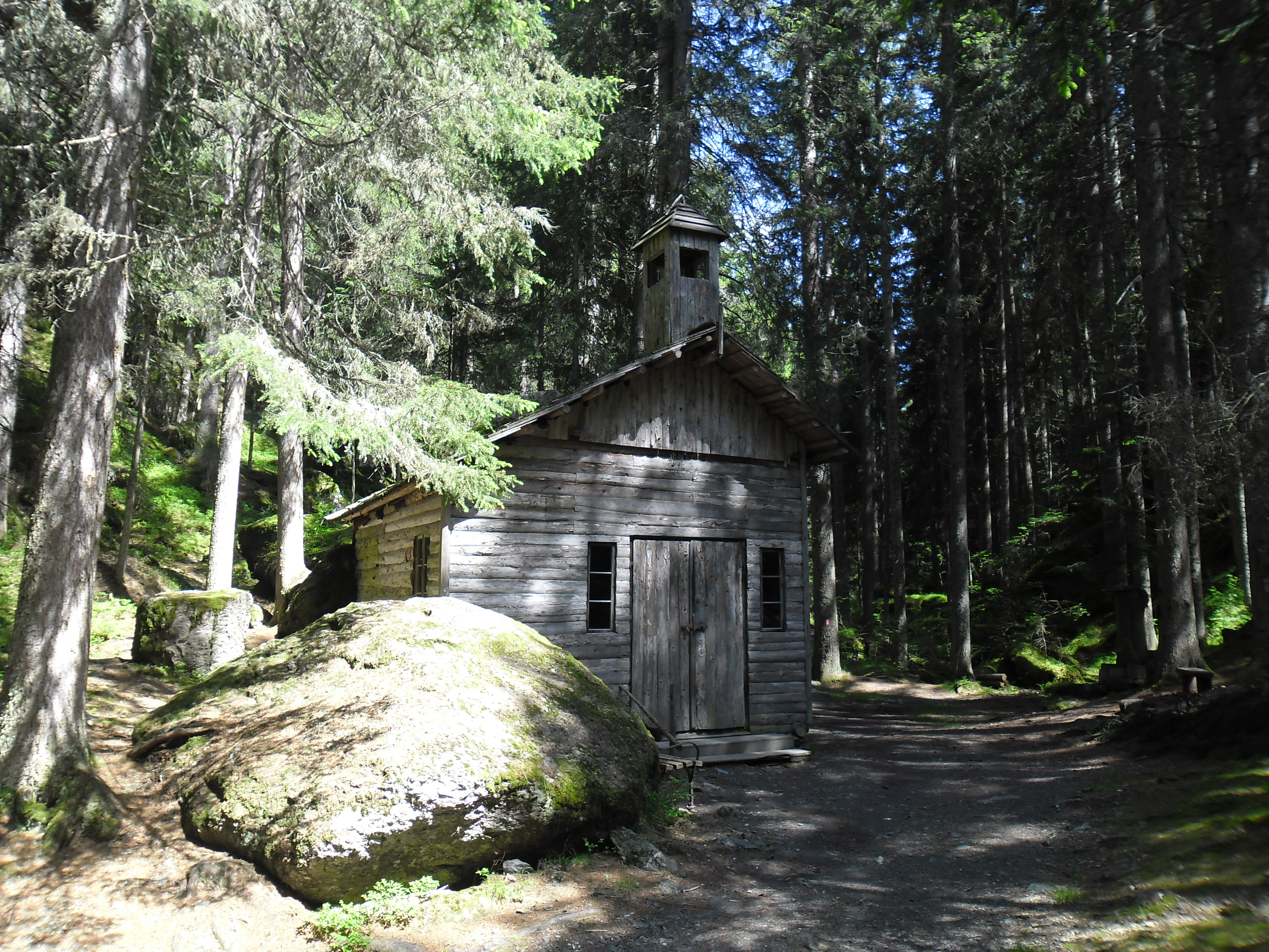 Forest Chapel Sexten.